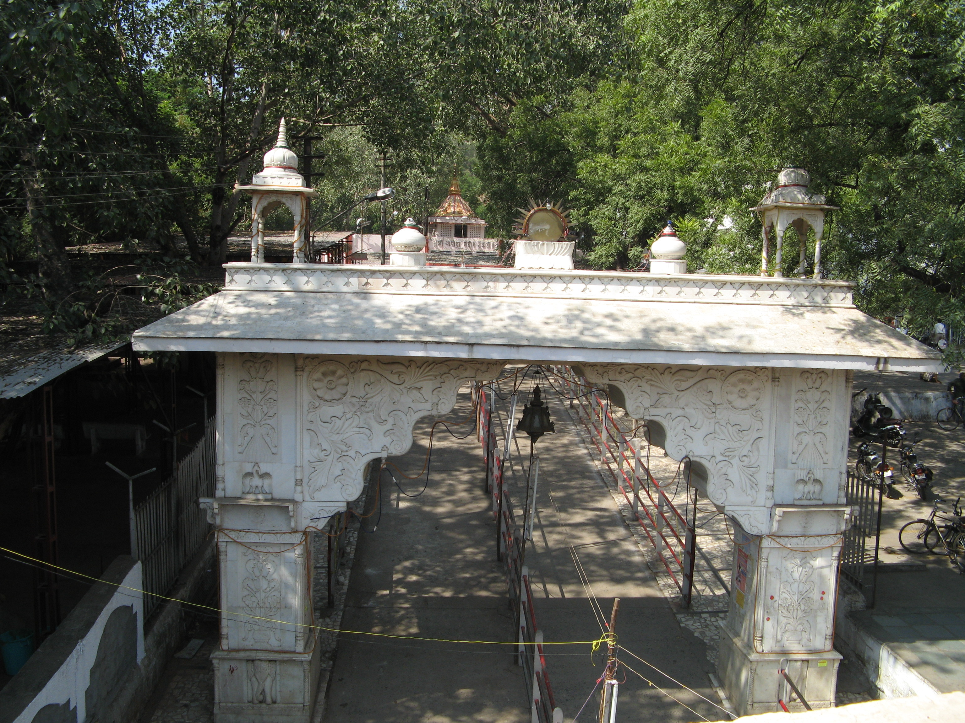 Sitabuldi Tekdi Ganesh temple of Nagpur. I took this picture from the newly constructed flyover. This is the entrance gate of the temple. visit website : Shree Ganesh